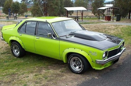 1974 Holden Torana (LH) SL/R 5000 L34 sedan. Note: the round headlamps fitted to the L34—all other LH Toranas were factory fitted with rectangular headlamps.